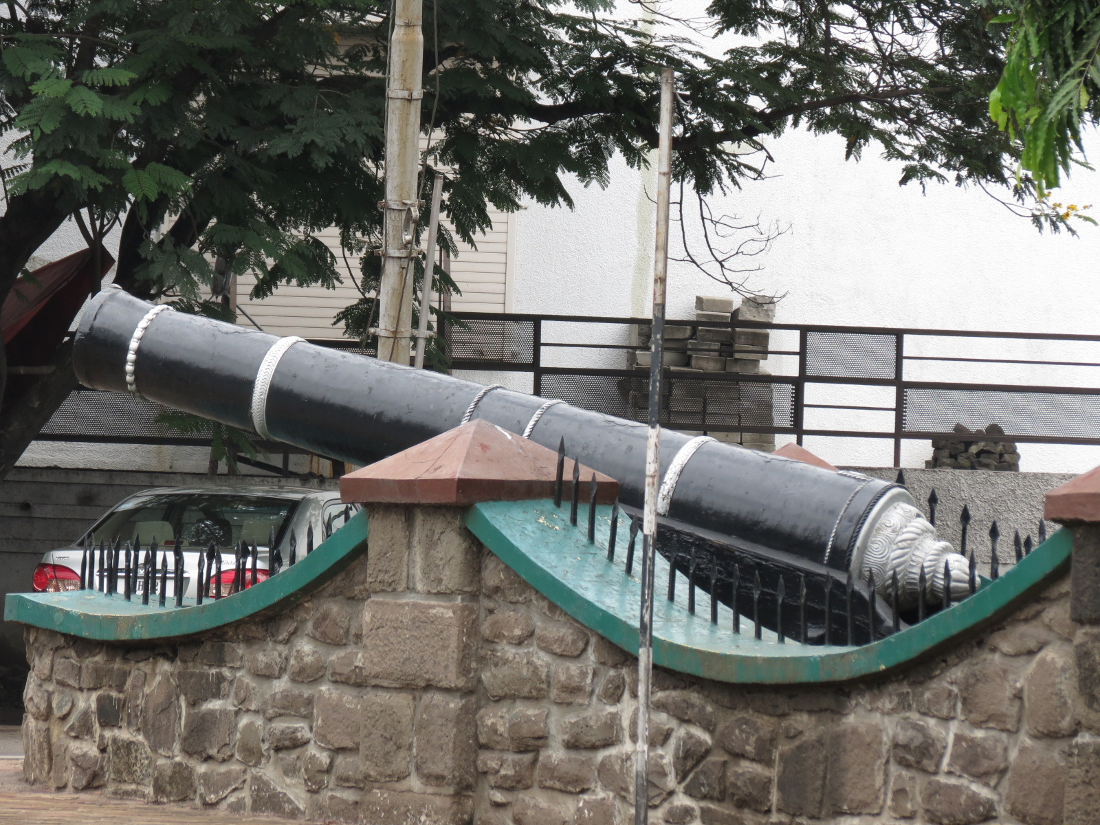 Maratha War Memorial Camp Pune